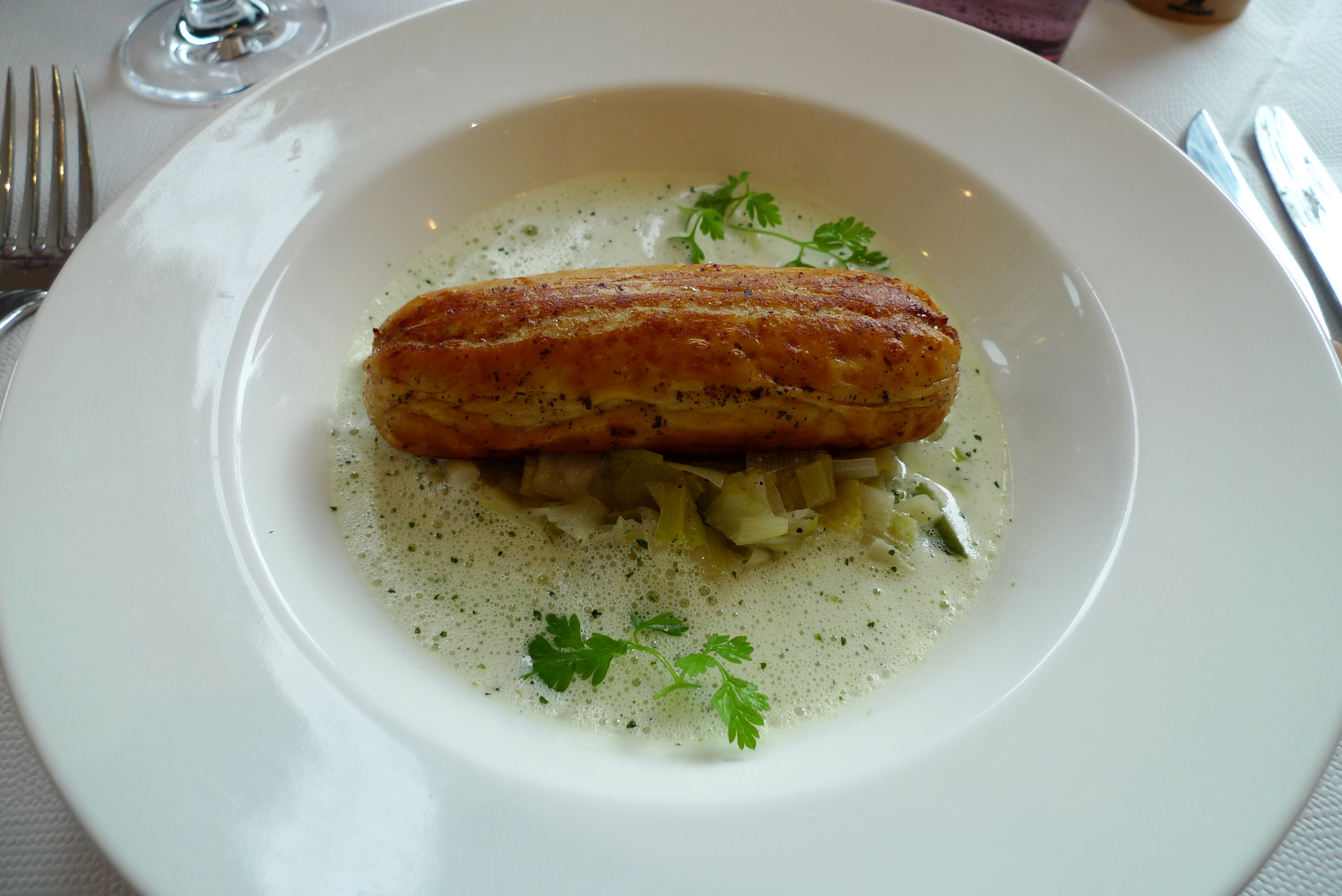 The guinea fowl boudin blanc with leek fondue and chervil sauce. Very light, but rich and mousse-like. At Bistrot Bruno Loubet, St Johns Square.